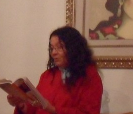 Reading from her new memoir